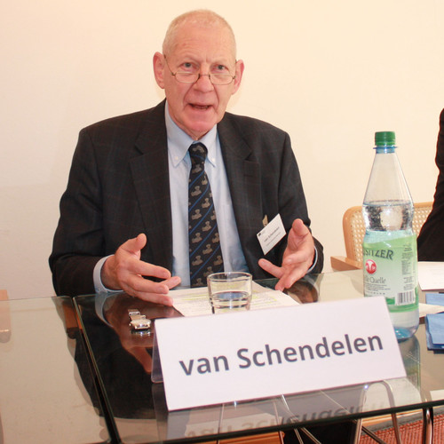 Prof. Rinus van Schendelen in Berlin 2012